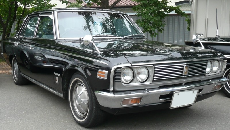 Toyota Crown S50 Super Deluxe.